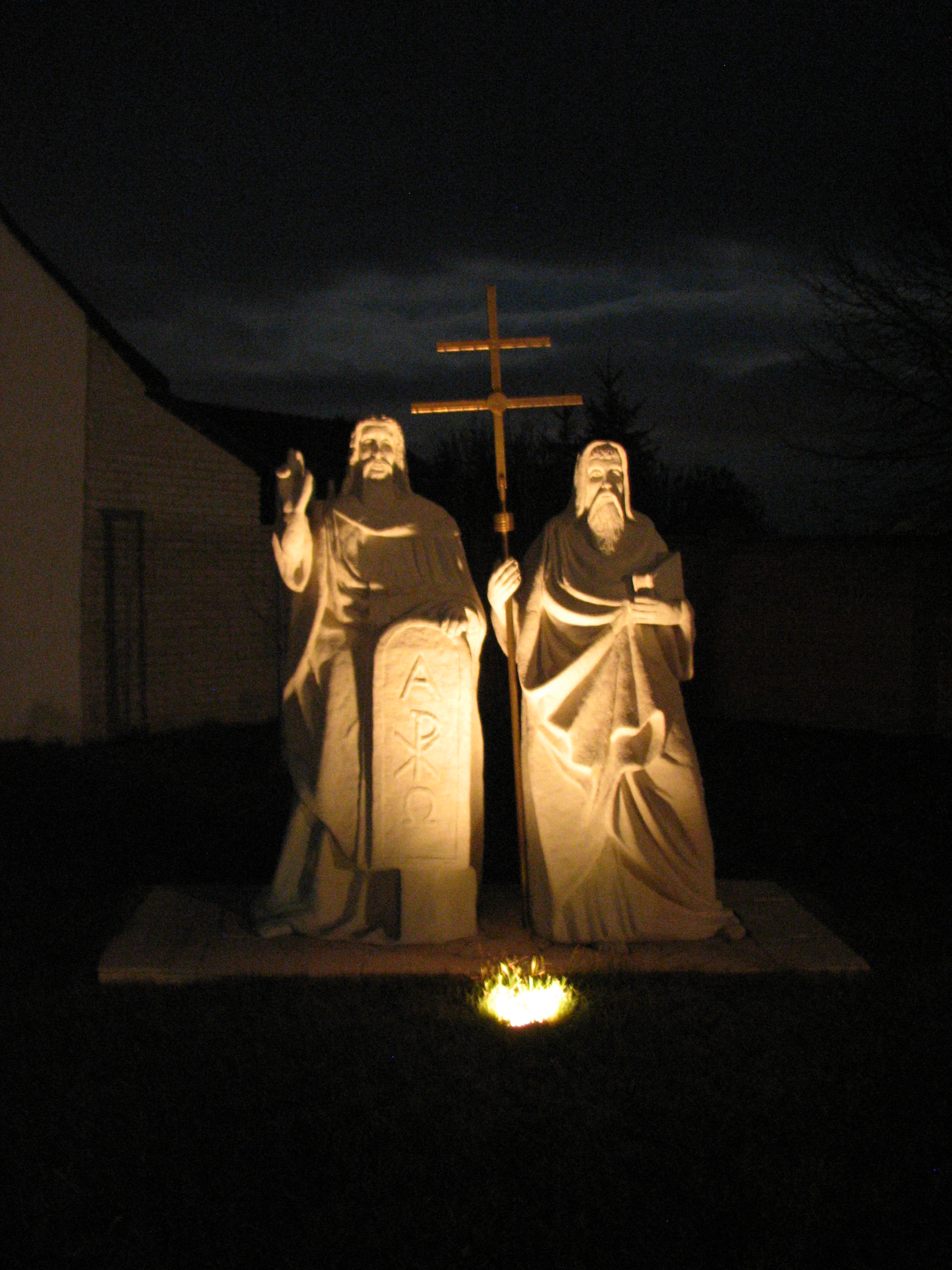 Mikulčice - Saints Cyril and Methodius